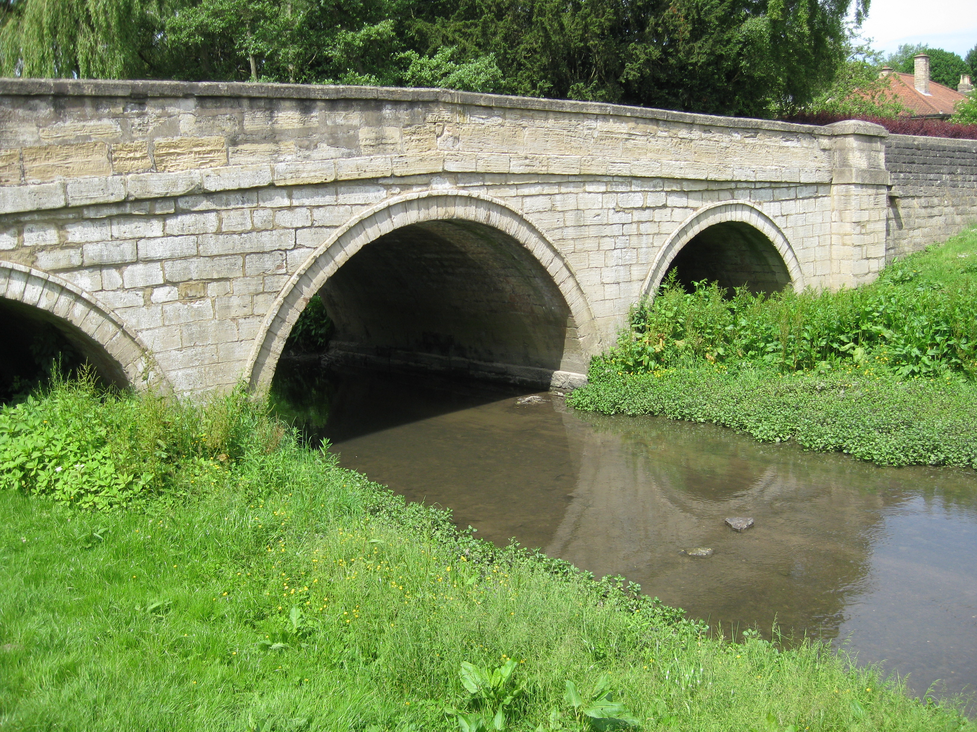 Aberford Bridge. Stone bridge carrying Main Street over Cock Beck, Aberford, West Yorkshire.